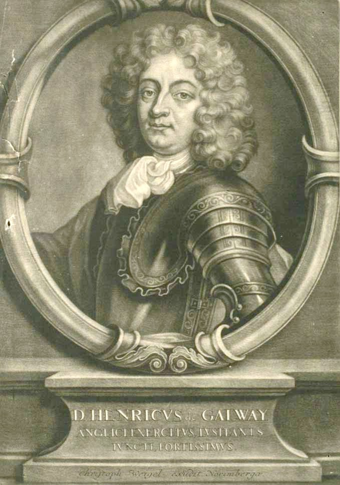 Henri de Massue, Marquis de Ruvigny, Earl of Galway (1648-1720)